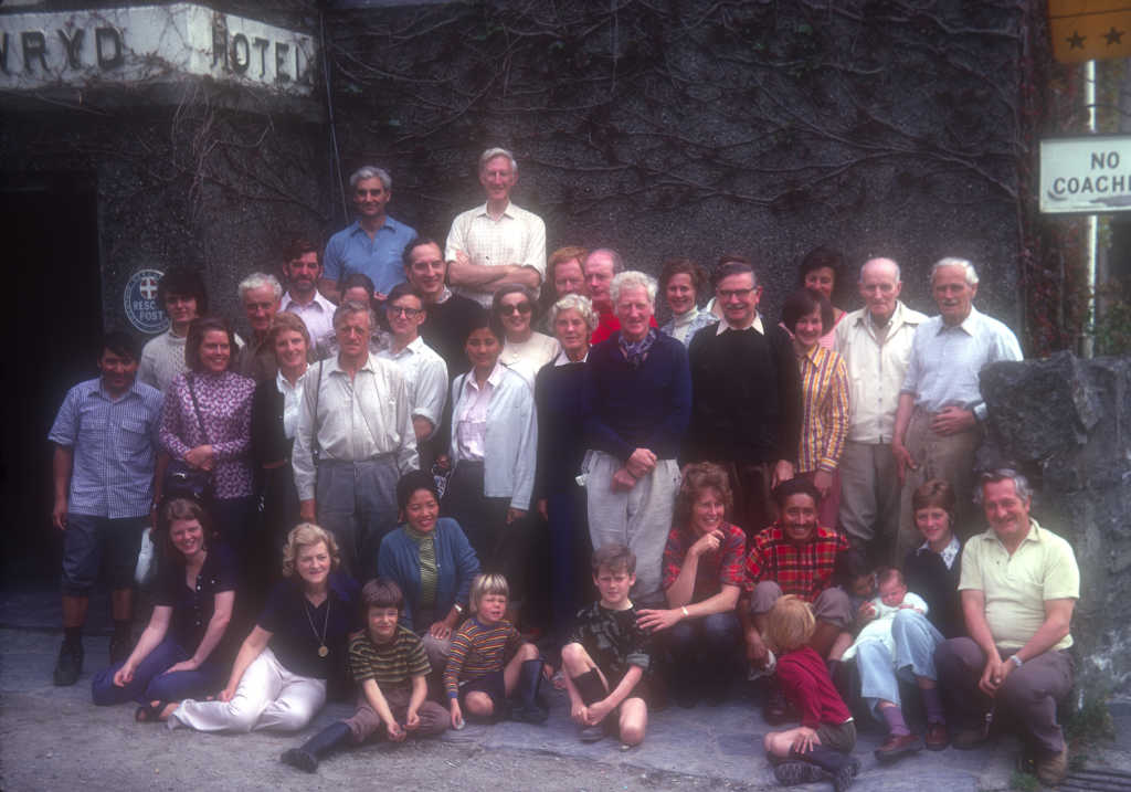 Everest reunion 1963. Team members with family and notable guests. Left to Right back rows: N/A, N/A, George Lowe, Mike Ward, N/A,N/A, George Band. Left to Right next row back: Nawang Gombu, N/A, N/A, Alf Gregory, Sita Gombu, Joy Hunt, John Hunt, Emlyn Jones, N/A, Noel Odell, N/A. Left to Right Front: Jane Briggs, Joe Briggs, Dakku Norgay, Sally Westmacott, Tenzing Norgay, John Angelo Jackson.